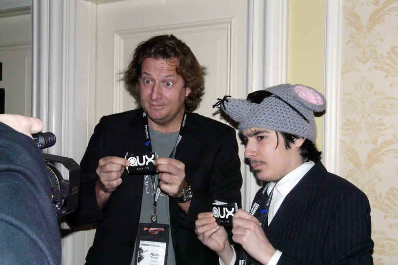 Music historian Alan Cross with Canadian television personality Kayvon